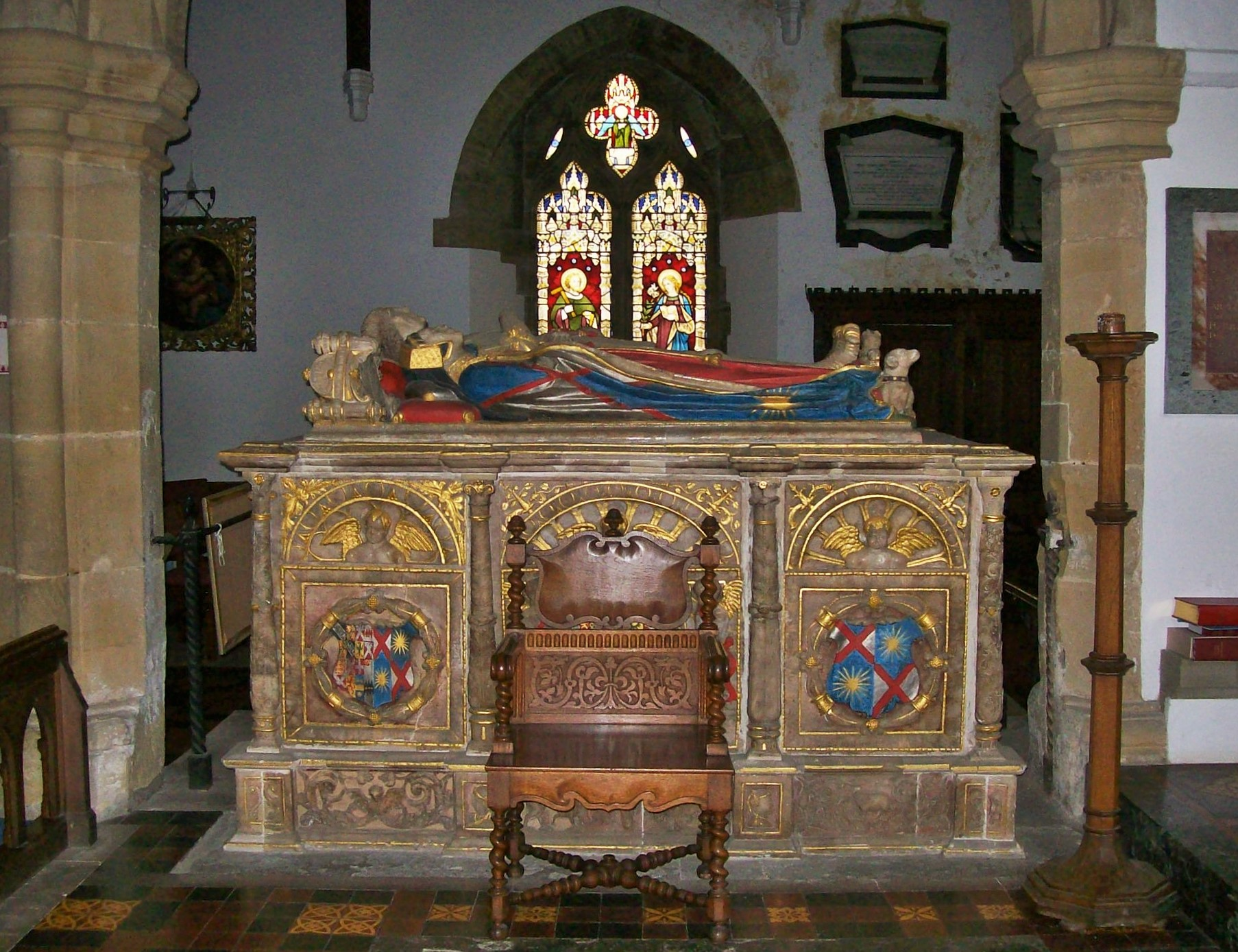 Monument to Sir Anthony Browne (d.1548), KG, and first wife Alice Gage (d.1540). St Mary's Church, Battle, Sussex. Inscription: "Here lieth the Knight Honorable Sir Anthony Browne, Knyght of the Garter, Master of the kyngs majestes horcys and one of the honorable privy councel of our most drad Sovereygn Lord and victorious prince King Henry the Eyght and dame Alis his wife whiche Alis decesid the 31 day of Marche AD 1540 and the sayd Sir Anthony decesid 6 day of May AD 1548 on whois sowls and all Cristen I.H.V have mercy. Amen"